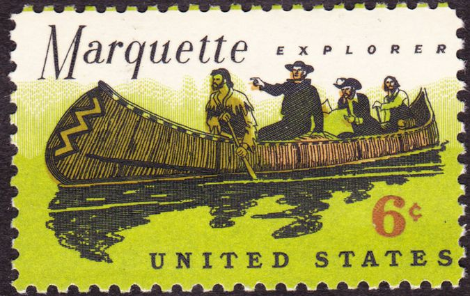 Marquette_1968_Issue-6c.jpg